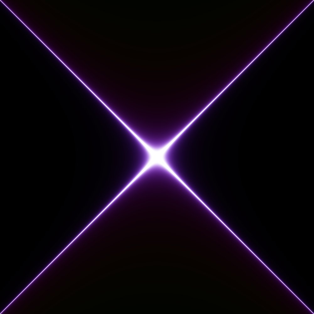 Feynman propagator, m = 2, left/right/top/bottom bounds of image are at = ±2.